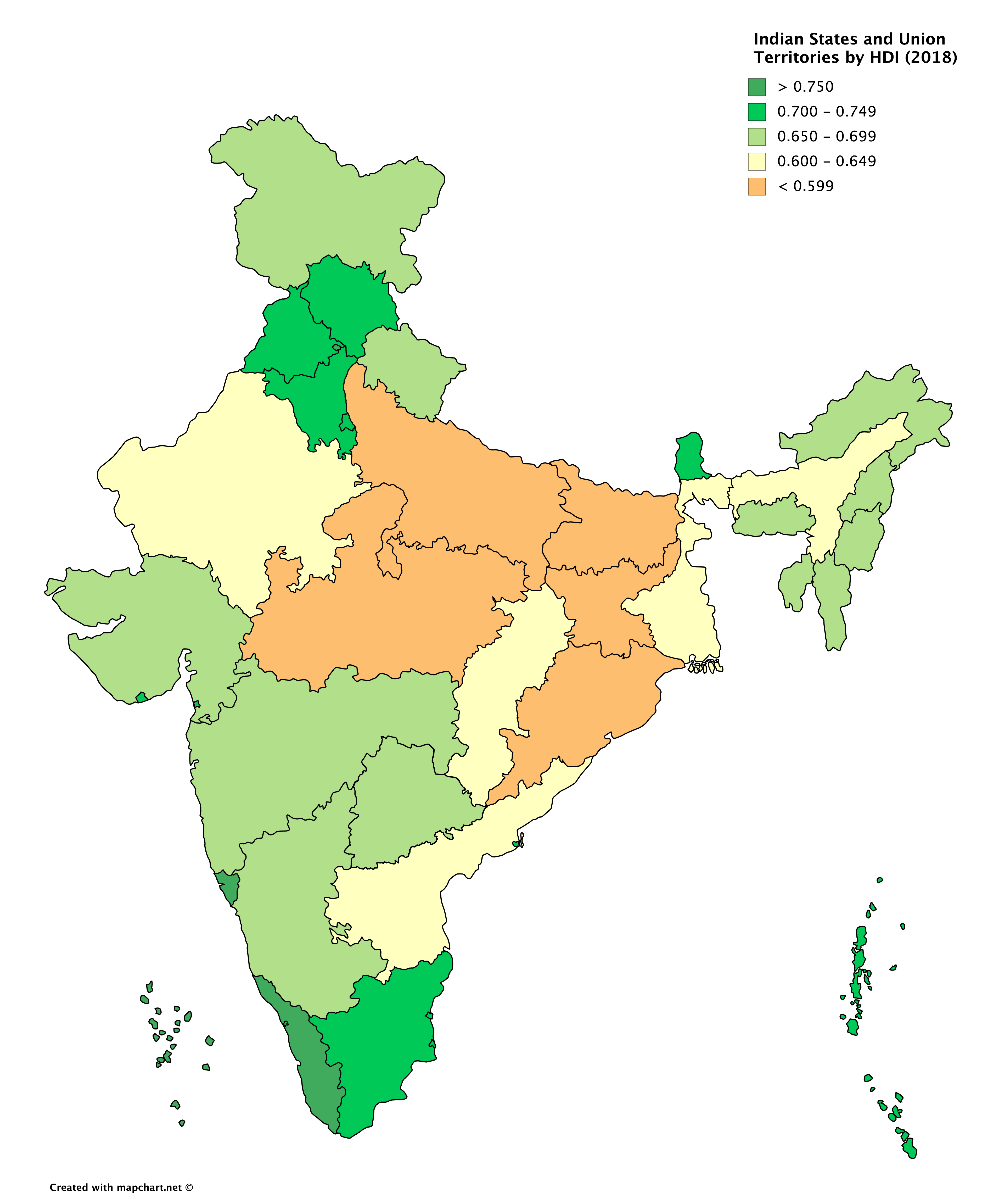 HDI of Indian states and union territories (2018)